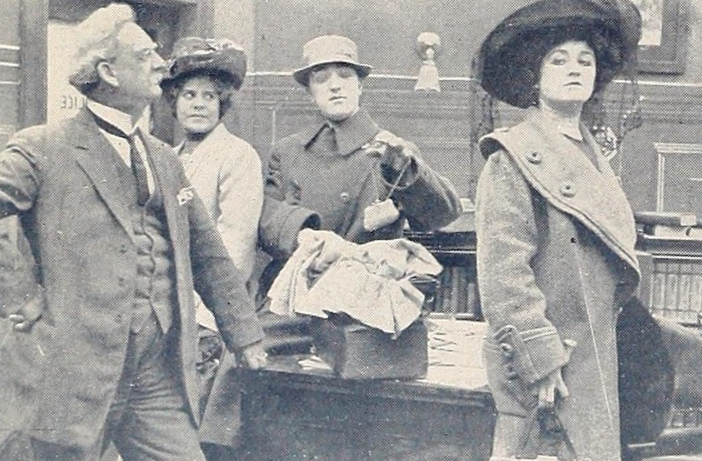 A film still from the 1911 film The Norwood Necklace by the Thanhouser Company. The film still shows Julia M. Taylor in the role of Violet Grey on the far right and three unidentified actors.